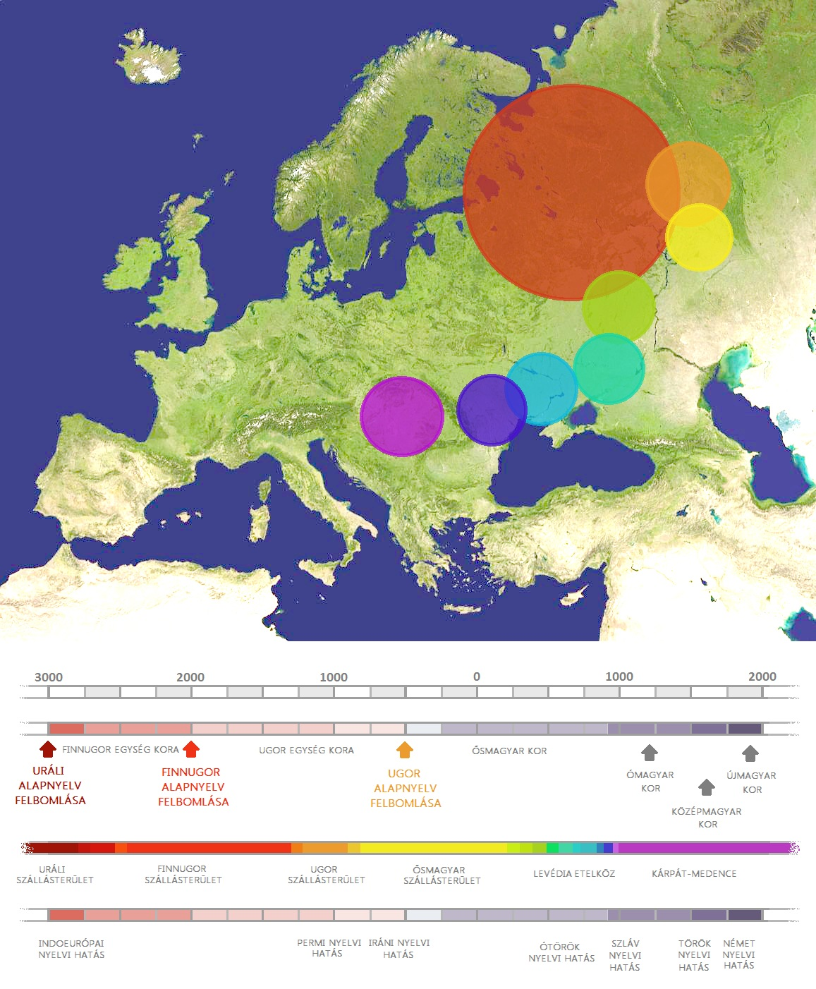 hungarian language history